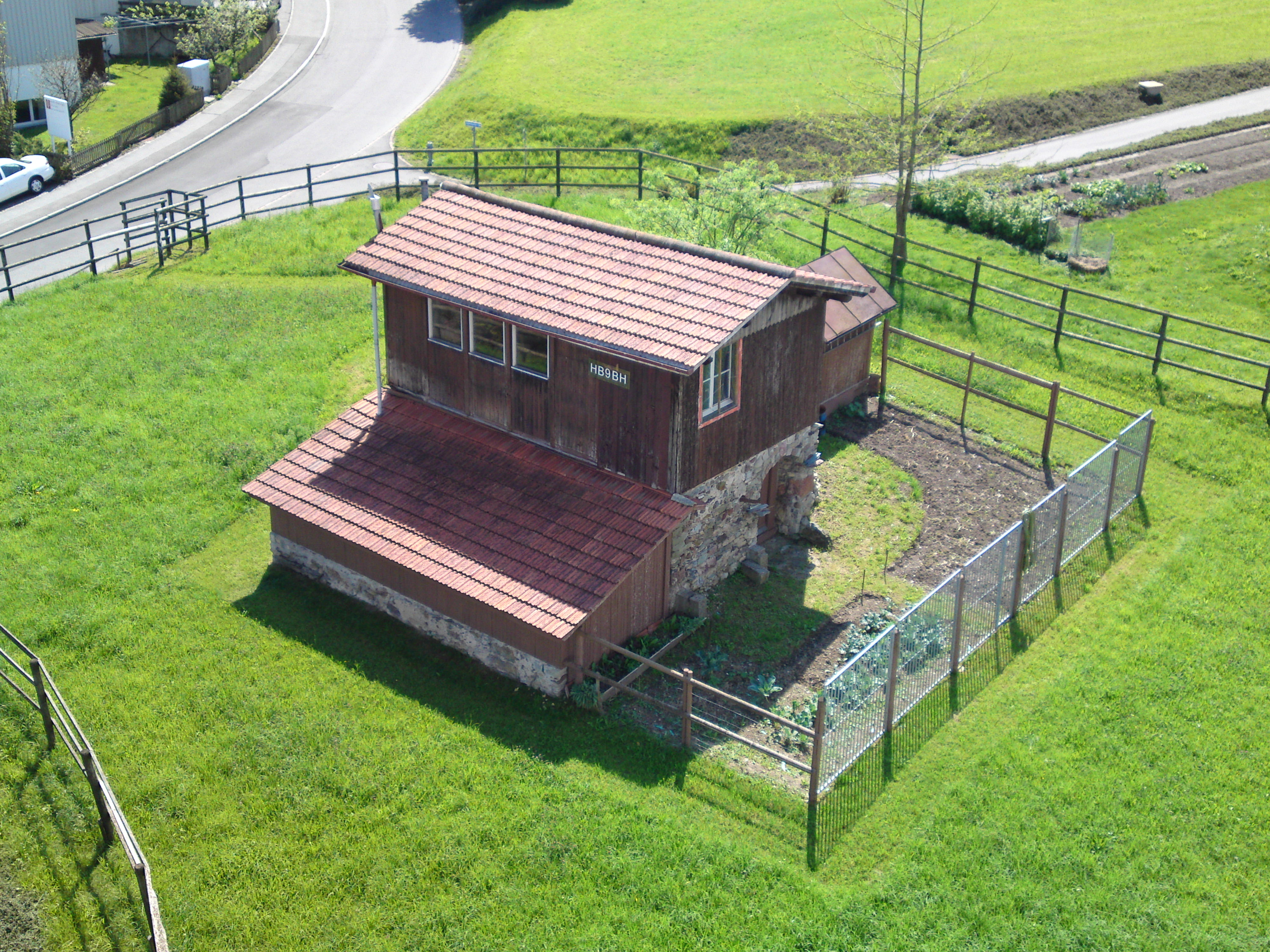 HB9BH Radio Station